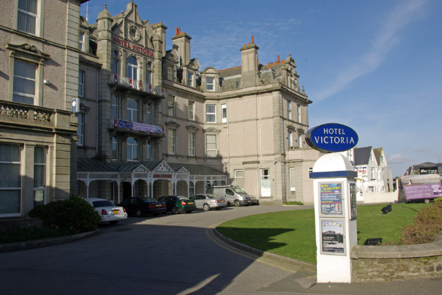 Hotel Victoria, Newquay This splendid hotel dates from 1899 and is redolent of a time when Newquay was an upmarket family resort.